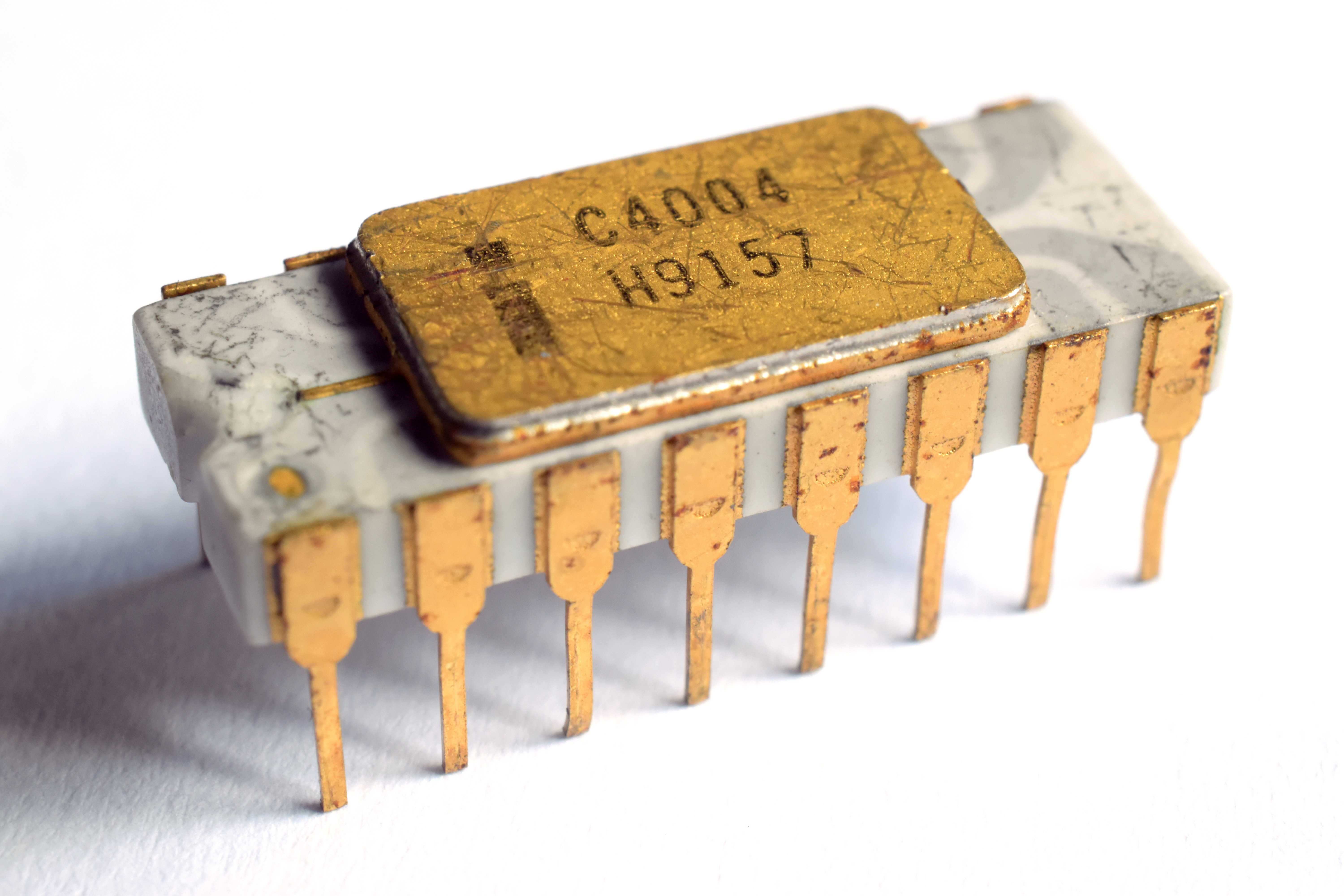 A processor Intel C4004 with grey traces (no gray trace version).